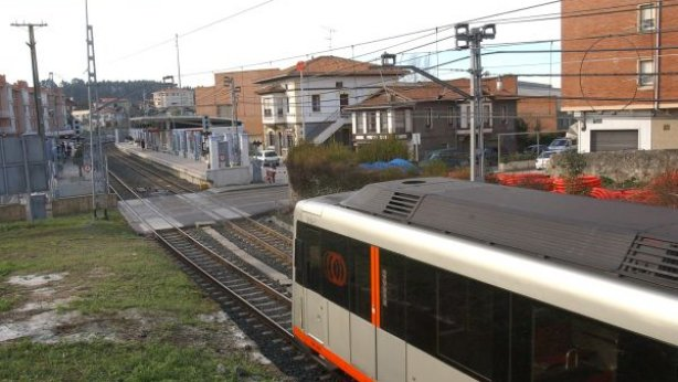 A Bilbao Metro train from Plentzia, approaching Urduliz station.